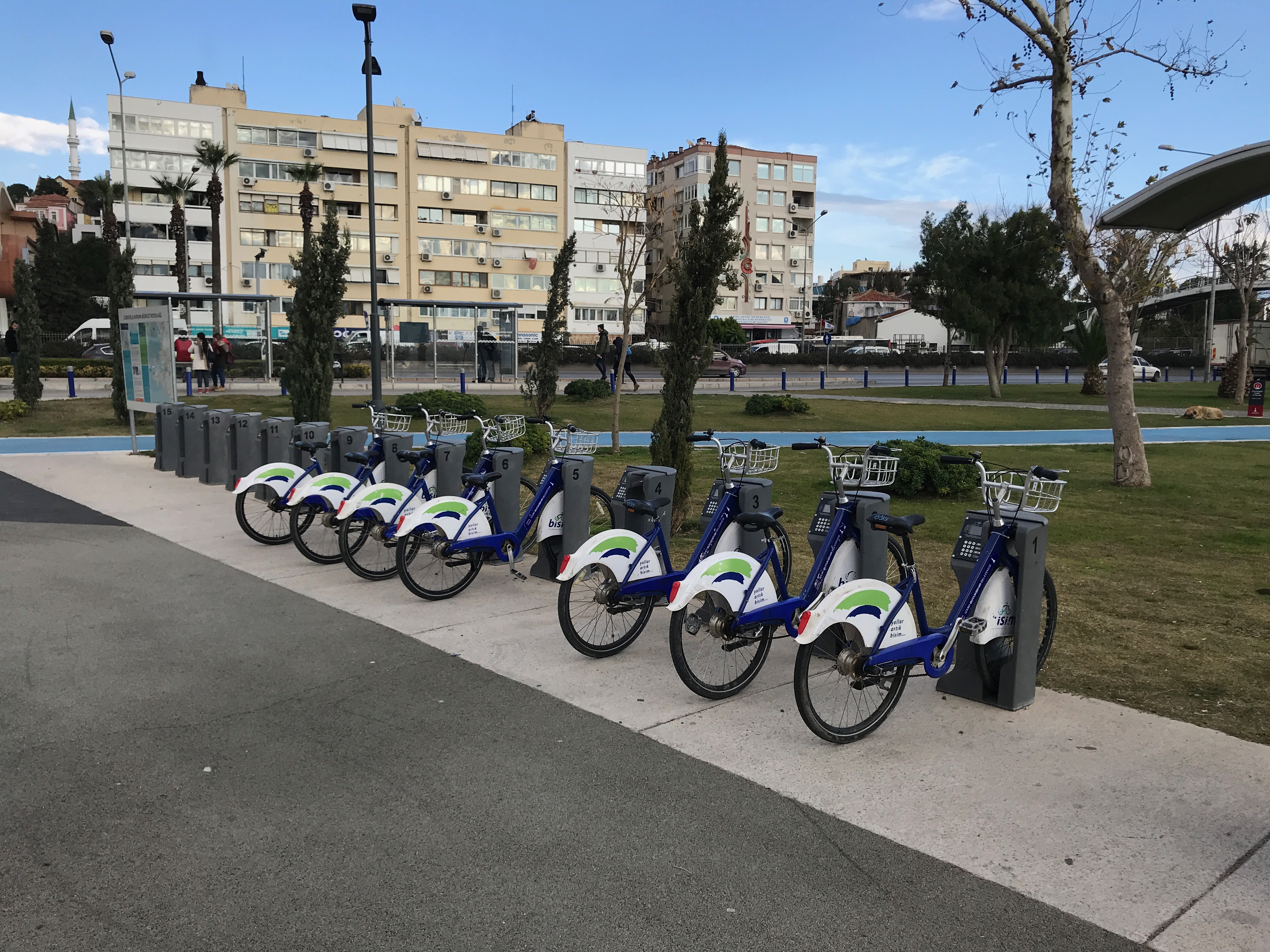 Bayraklı İskele station of Bisim in İzmir, Turkey.